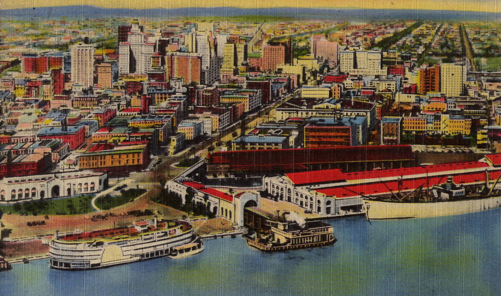 Postcard of New Orleans. Aerial view from over the river near the foot of Canal Street looking lakewards. The Canal Street Ferry at the Canal Wharf visible at bottom center. To right is the since demolished Iberville Street Wharf, beyond it the old Louisville & Nashville Station, one of the city's major railway terminals. To left on the river is a paddle wheel ship. Canal Street seen running diagonally, looking like it extends to Lake Pontchartrain-- it looks to me like the artist who modified the photo to add false color has moved the lakefront in a bit closer to the front of the city.